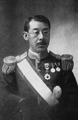 Naohira Matsudaira